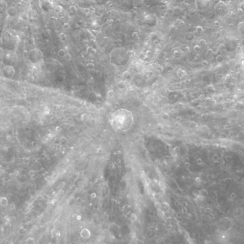 Jackson crater, on the far side of the moon, showing much of its bright ray system. Image width is approximately 800 km. Clementine UVVIS 750 nm mosaic.